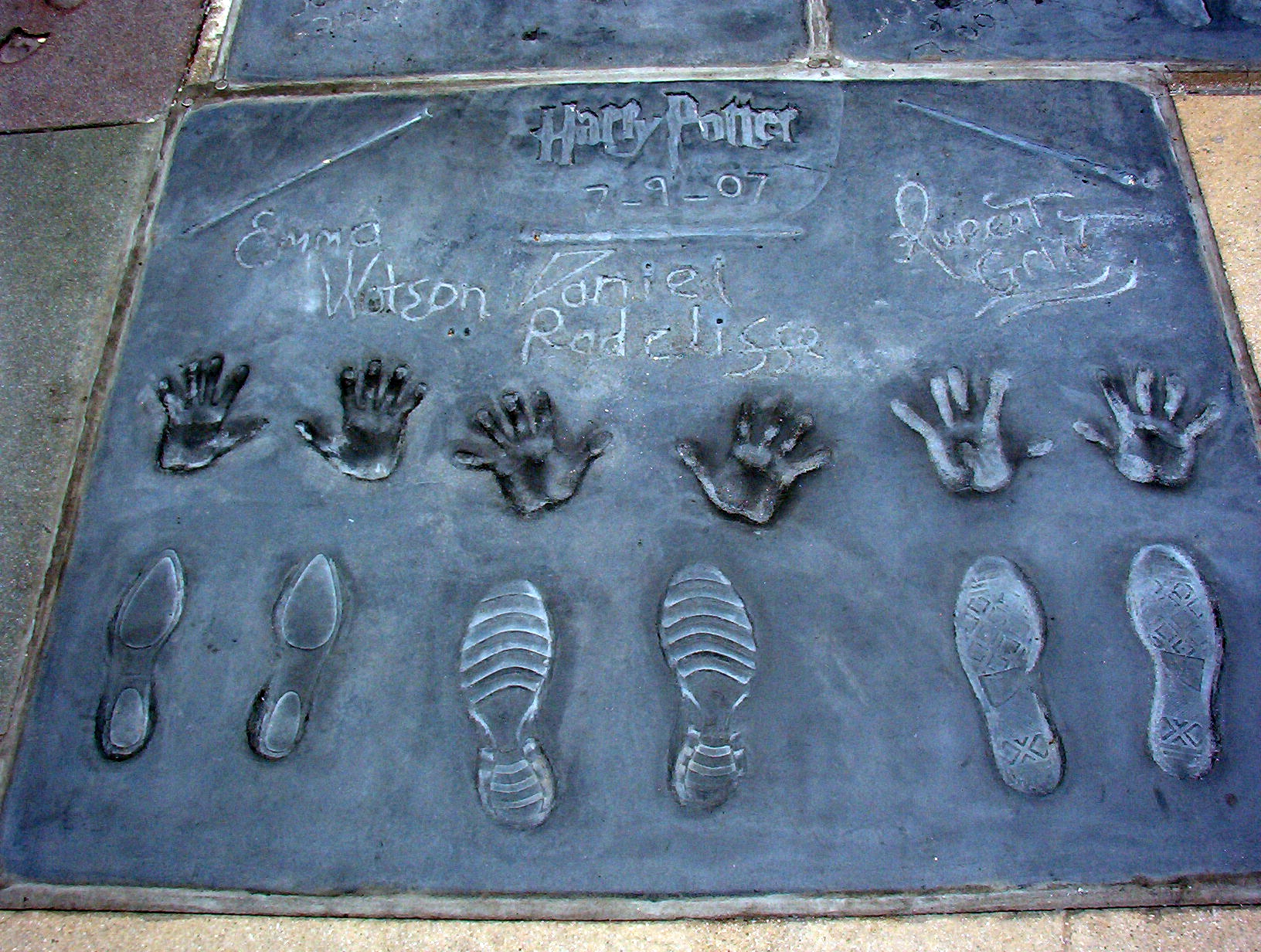 The Grauman's Chinese Theatre sidewalk includes the handprints, footprints and wand prints of the three main stars of the Harry Potter films (from left to right: Emma Watson, Daniel Radcliffe, Rupert Grint).